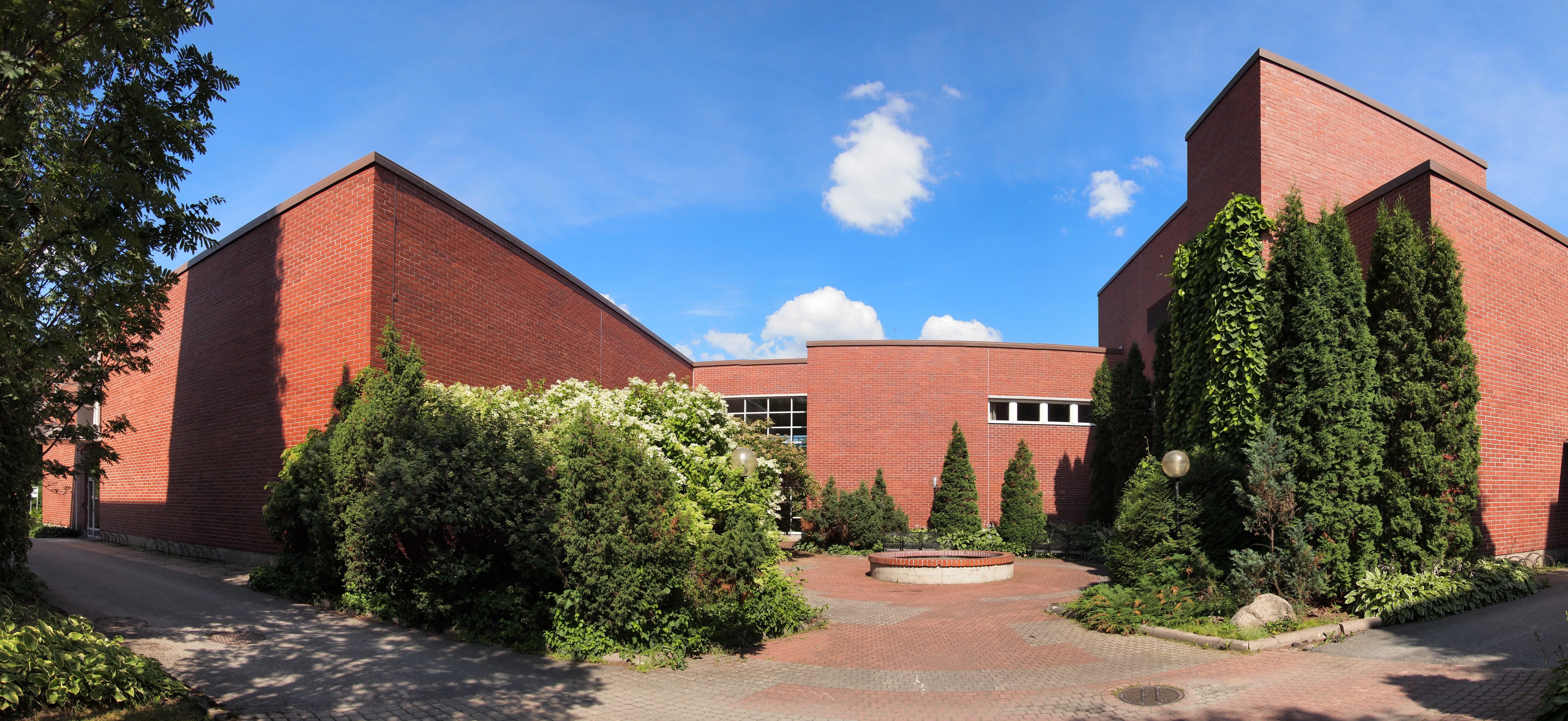 View of a building MaA at Mattilanniemi Campus, University of Jyväskylä.